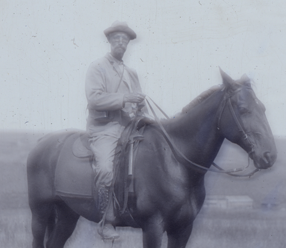 This is the only known photograph of Dr. A. G. Leonard in existence.